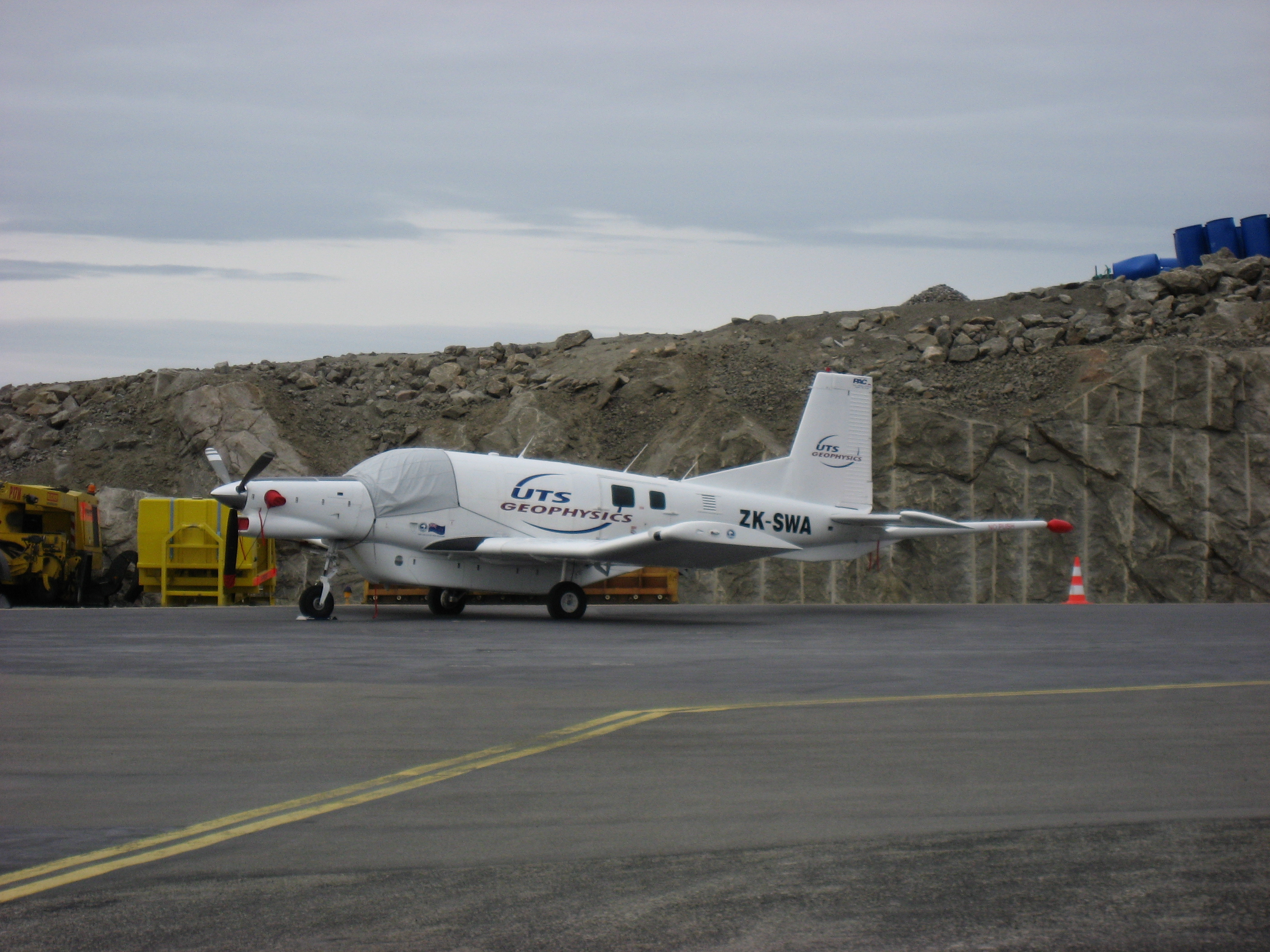 The geological survey aircraft ZK-SWA in Upernavik Airport. The aircraft is an PAC 750XL, which has been modified extensively for geo-survey work. The unique modifcations include a sting magnetic anomaly detector.